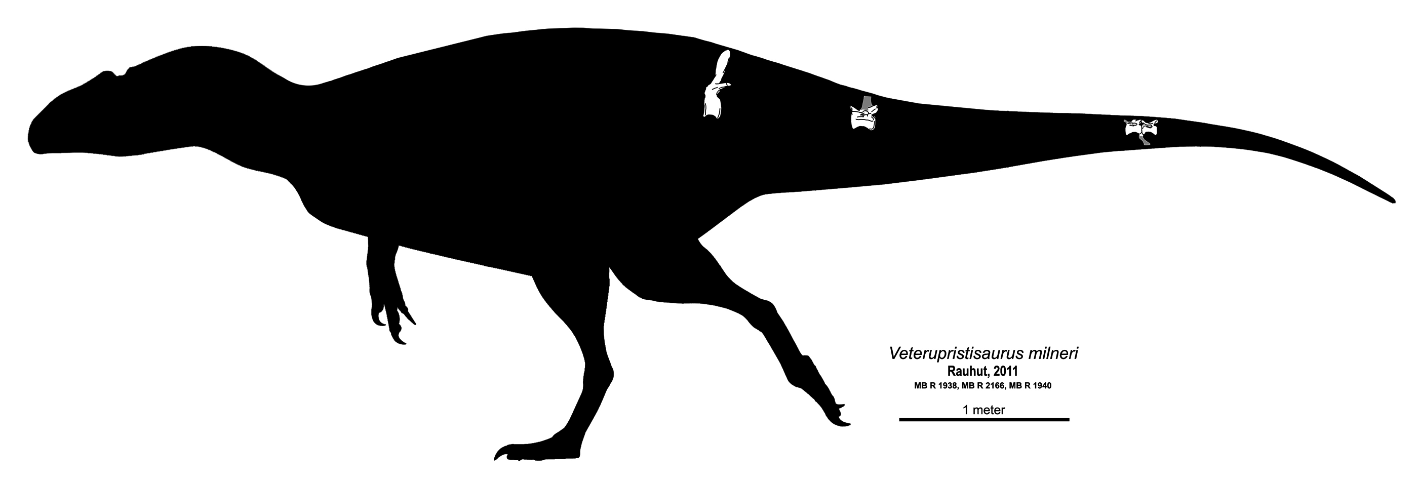 Skeletal diagram of Veterupristisaurus milneri including all known remains. The middle vertebrae is the holotype (MB R 1938), the pair on the right are the paratypes (MB R 2166), and the far left caudal is the questionably referred vertebra (MB R 1940).